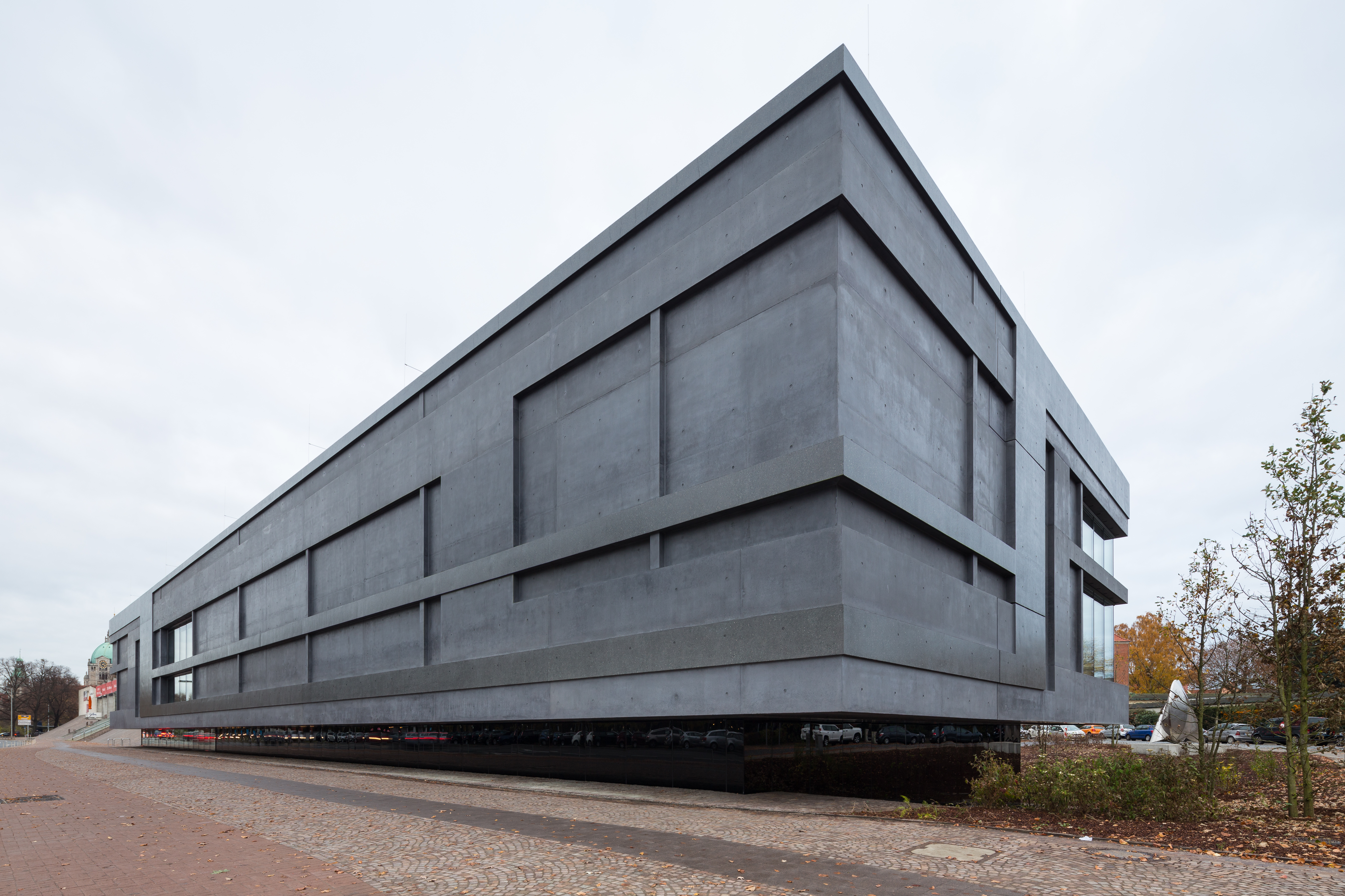 Expansion building of Sprengel Museum Hannover located at Rudolf-von-Bennigsen-Ufer and Auf dem Emmerberge in Suedstadt quarter of Hannover, Germany.